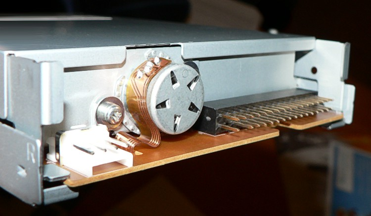 hardware fdd back interface